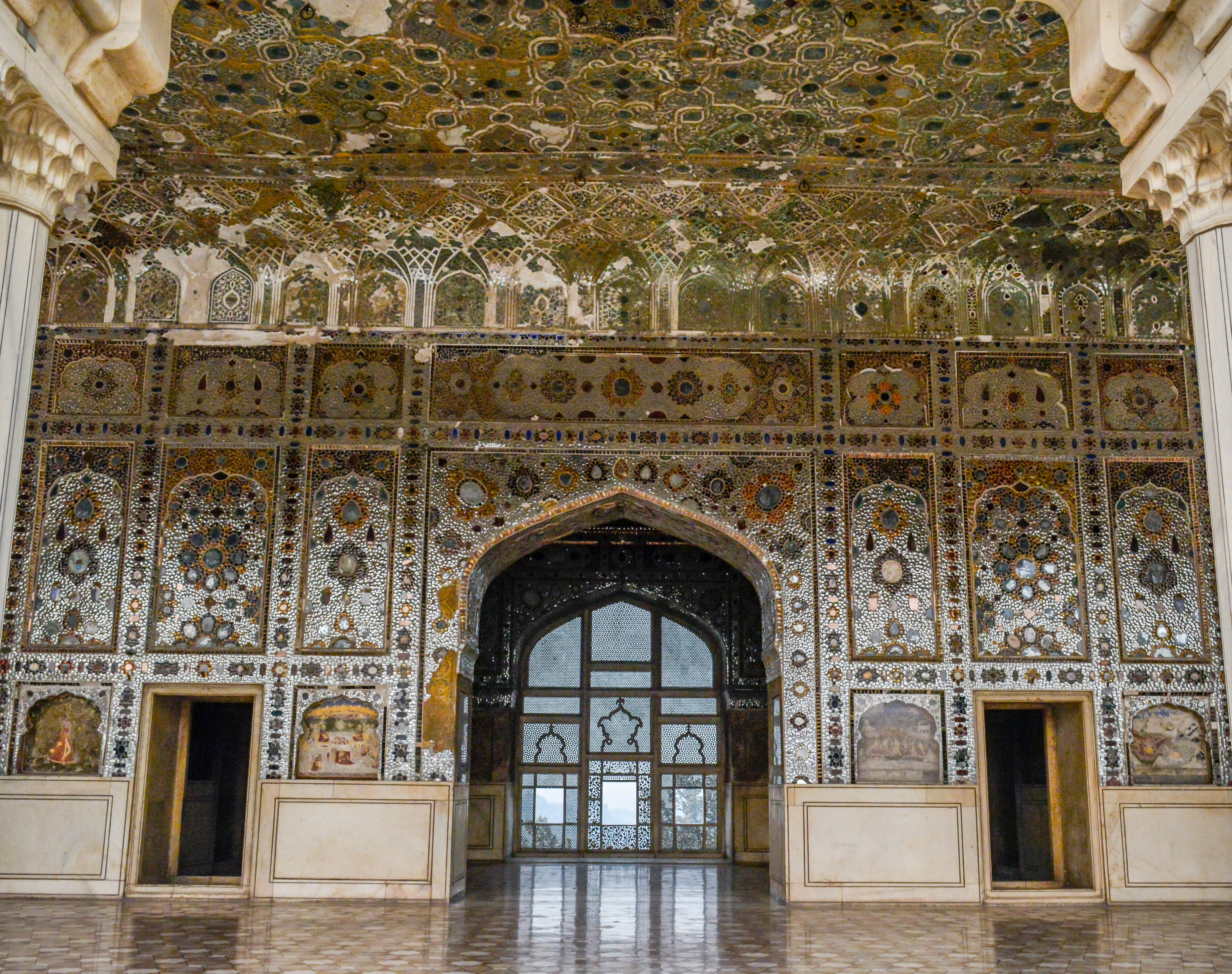 Lahore Fort complex (including Moti Masjid, Naulakha Pavilion, Sheesh Mahal and others) This is a photo of a monument in Pakistan identified as the PB-67